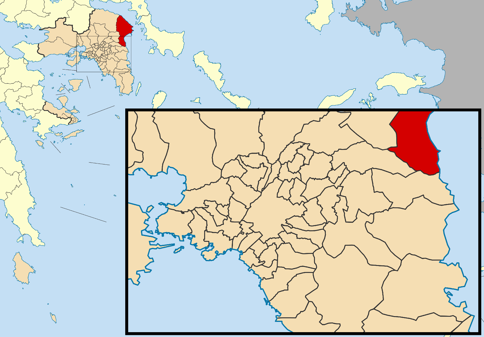 Locator map for Marathonas municipality in Greek region Attica (2011)